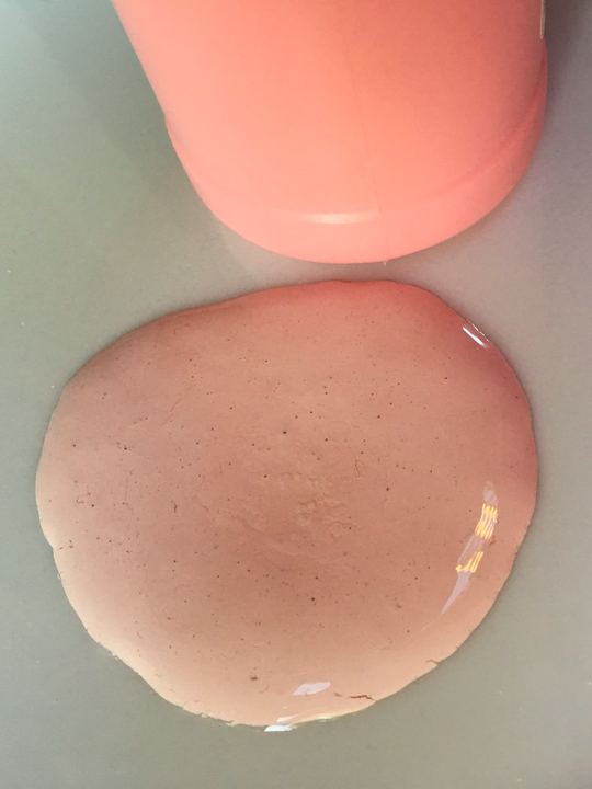 A puddle of calamine lotion, next to the bottle. The lotion was shaken thoroughly a moment before; the dark speckles in the puddle are air bubbles. Calamine is a treatment for itching.